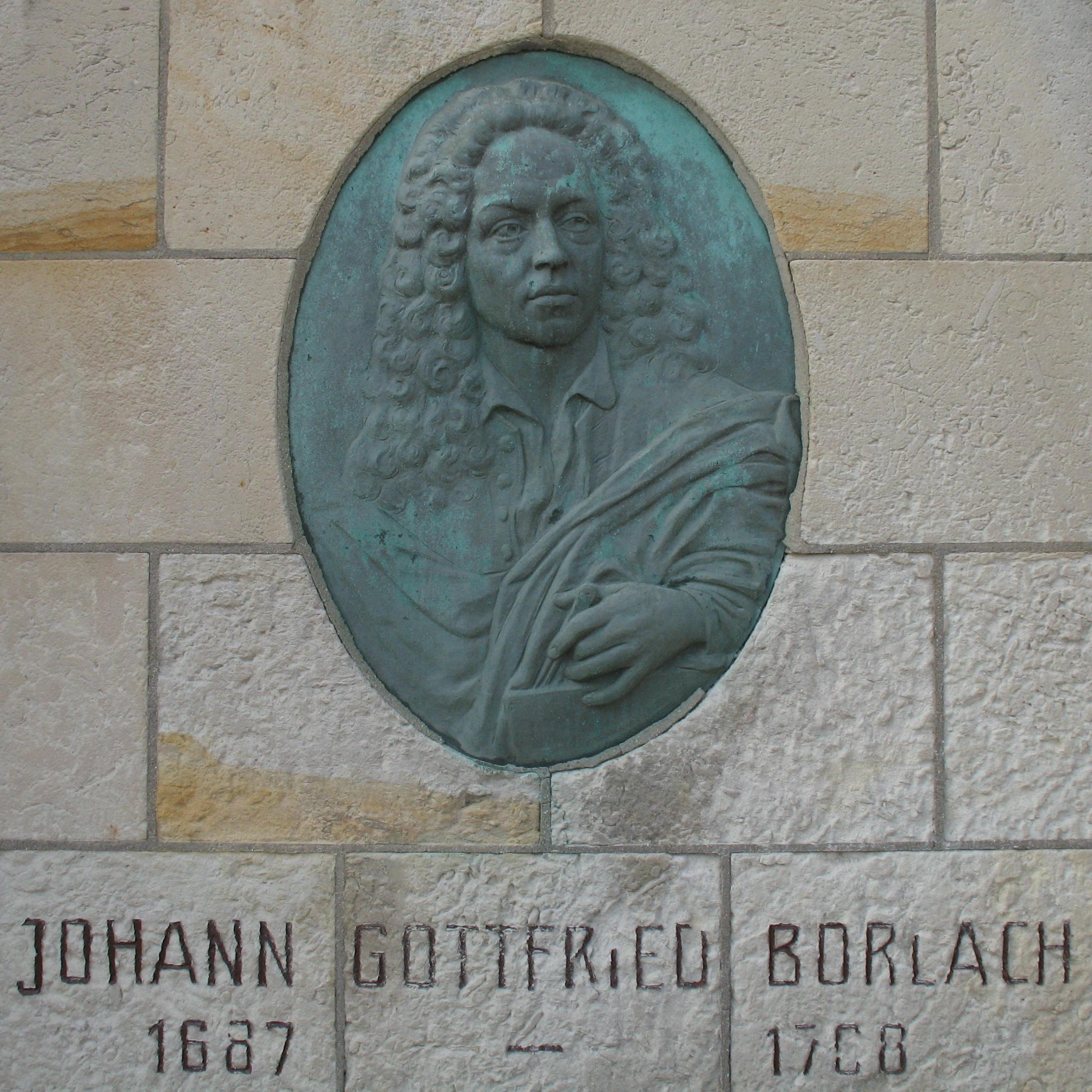 Borlach plaque in Bad Dürrenberg in Saxony-Anhalt, Germany